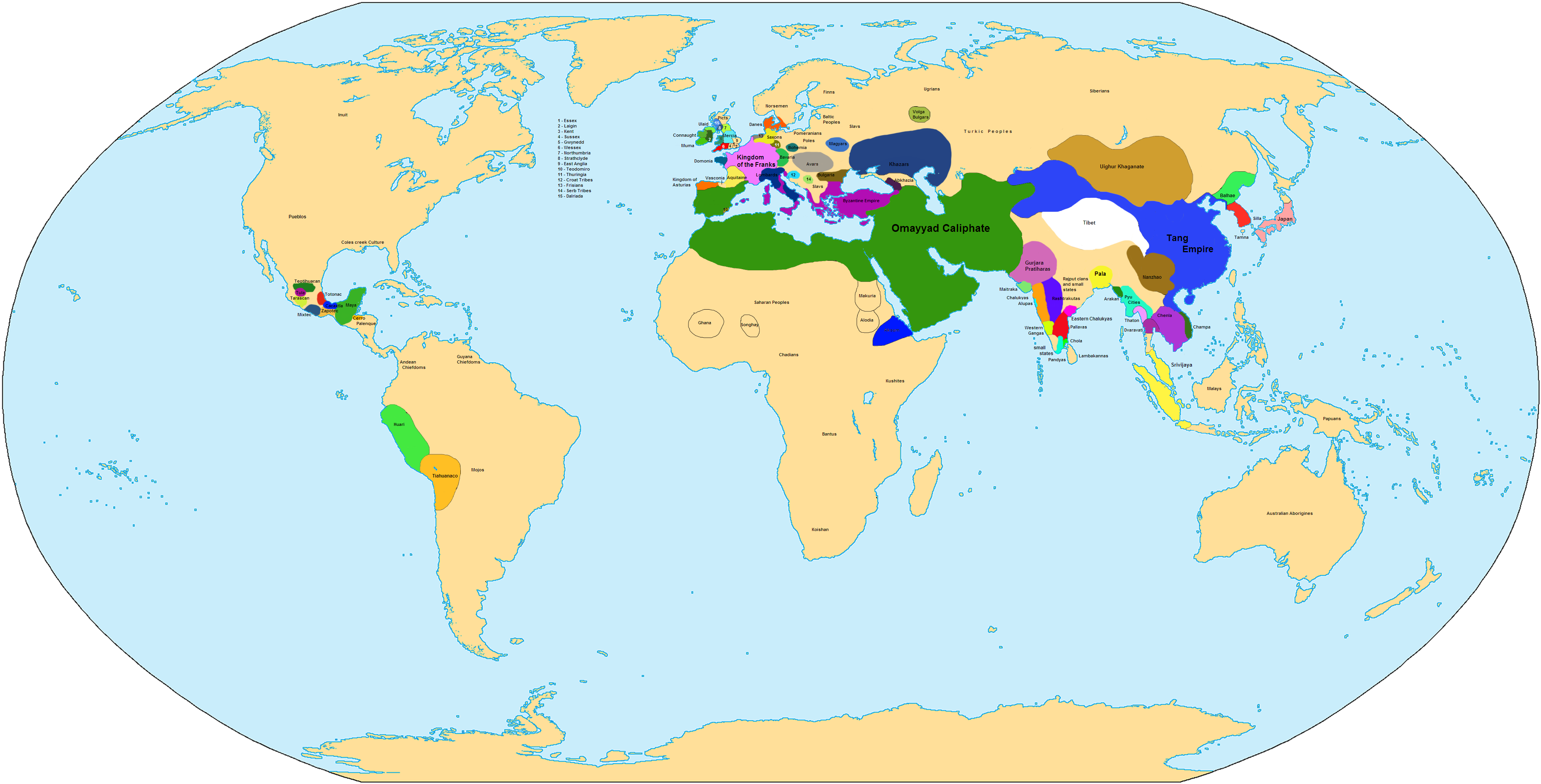 The world in 750 AD.